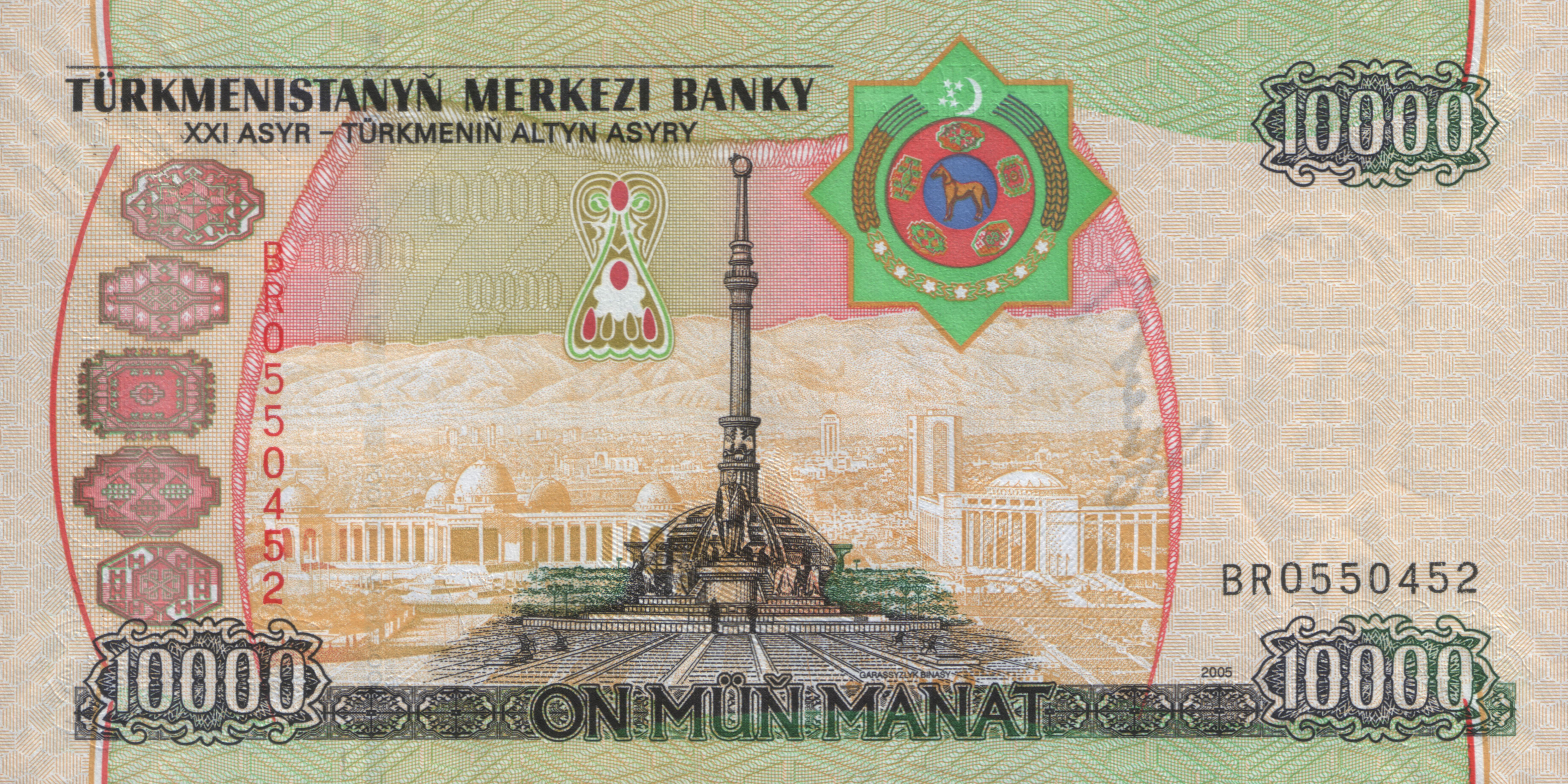 10000 manats of Turkmenistan (2005)